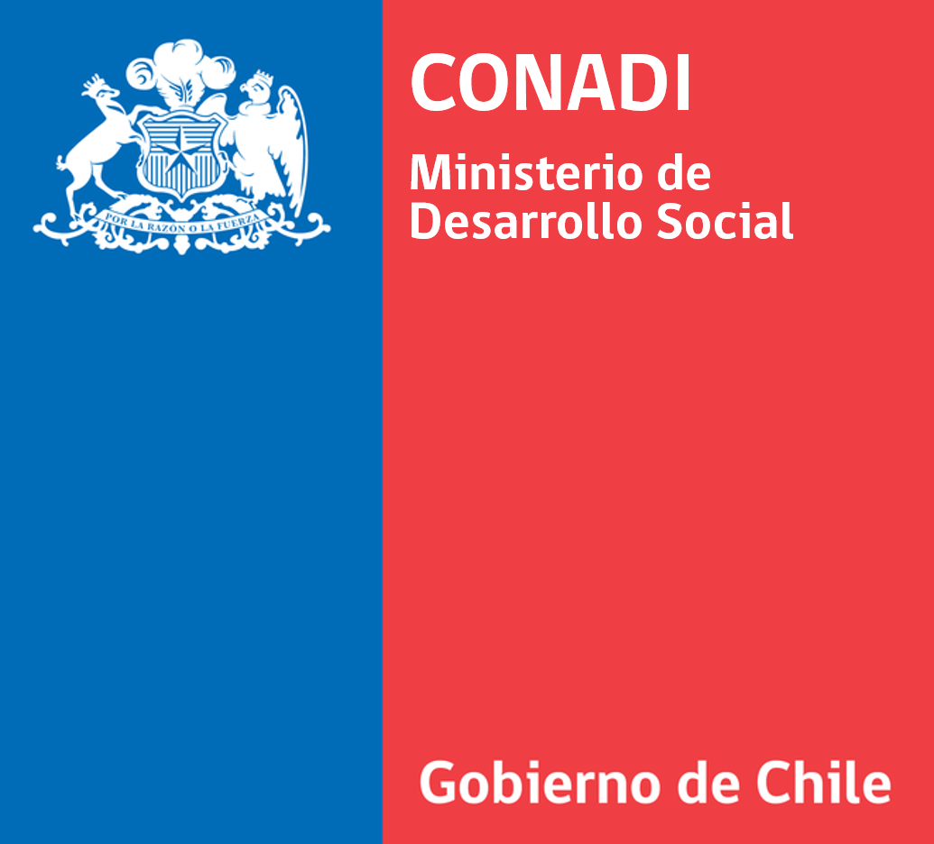 Logo of the National Indigenous Development Corporation.